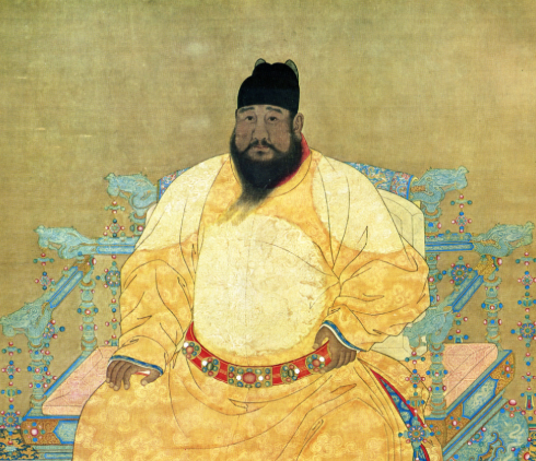 Ming Ruler with full beard